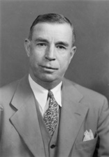 Dennis Chávez (April 8, 1888 - November 18, 1962), a Democratic politician from the U.S. State of New Mexico who served in the United States House of Representatives and in the United States Senate from 1935 to 1962